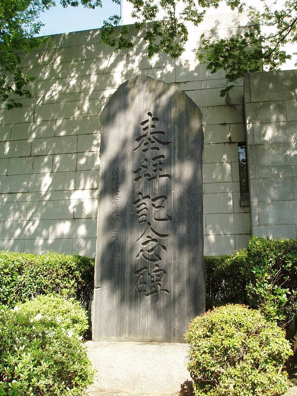 Memorial of Royal Visit to Gunma Normal School (1934), one of the predecessors of Gunma University, located in Maebashi, Gunma, Japan.The original letters were written by Kantarō Suzuki (1868 - 1948), the grand chamberlain at that time.